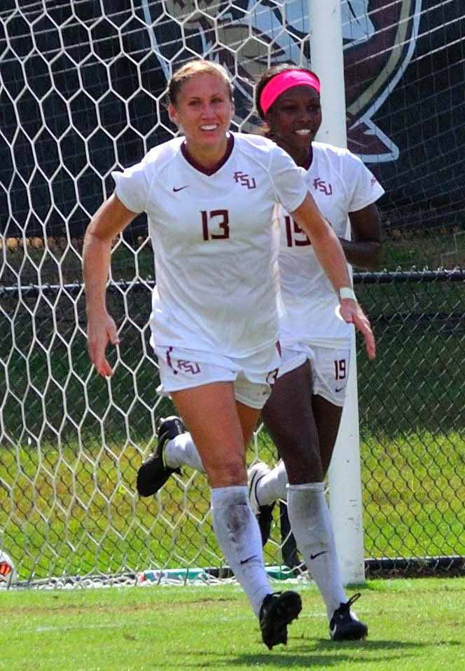 FSU vs Virginia Tech October 12, 2014 Tallahassee, FL